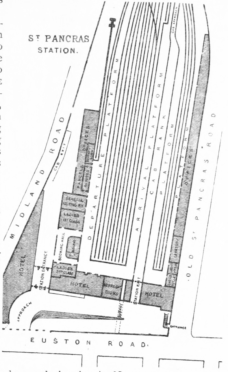 Plan of St Pancras railway station as it was in 1888.